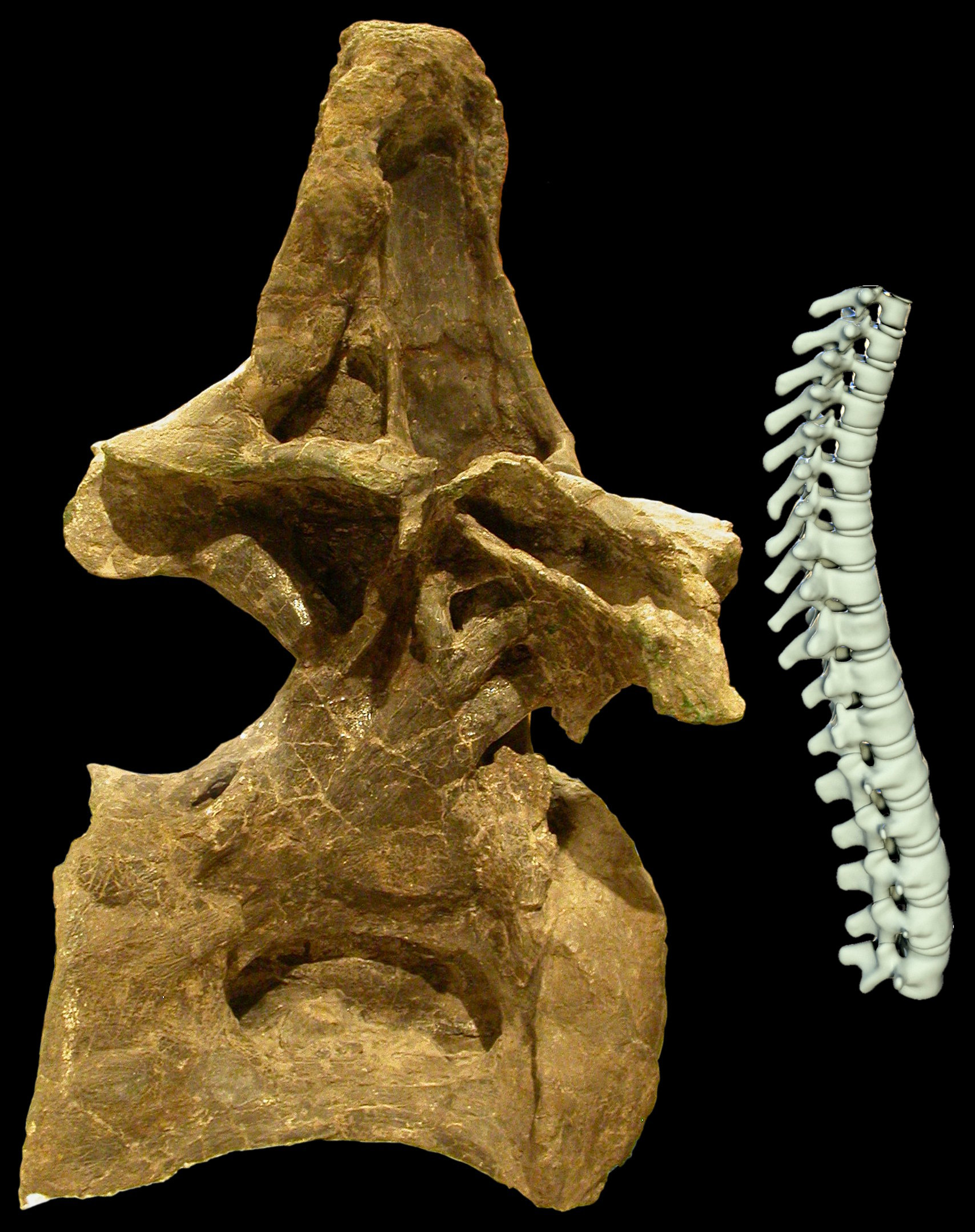 The fifth presacral vertebra of the Brachiosaurus altithorax holotype specimen FMNH P25105, in right lateral view, with a complete human dorsal column for scale.